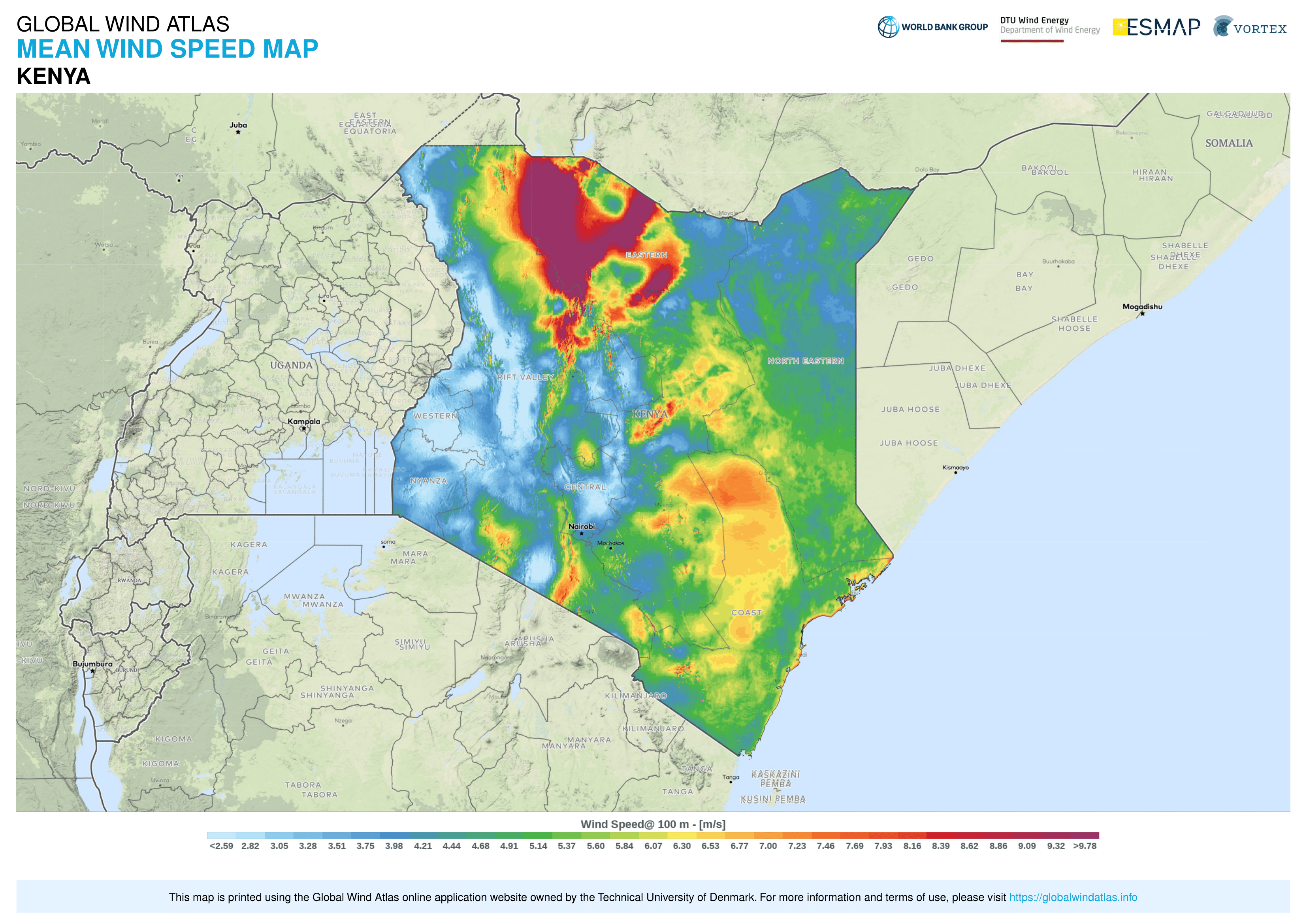 Mean wind speed in Kenya from Global Wind Atlas